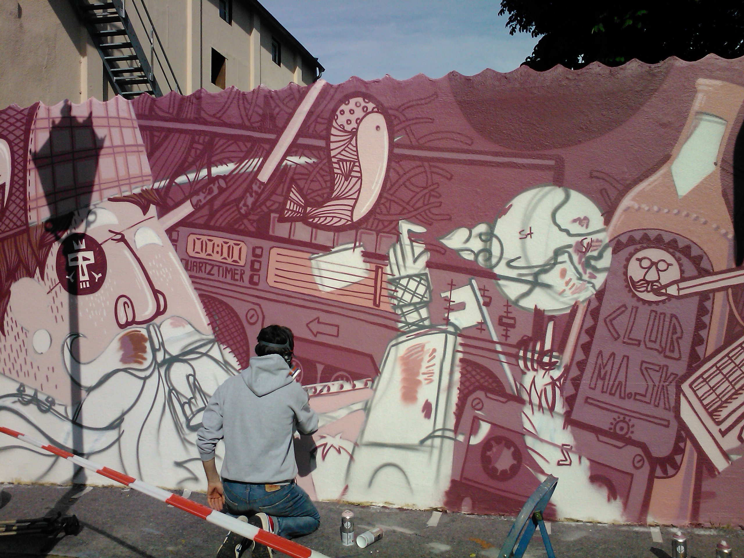 Wandgemälde entsanden bei den Hansetagen in Herford